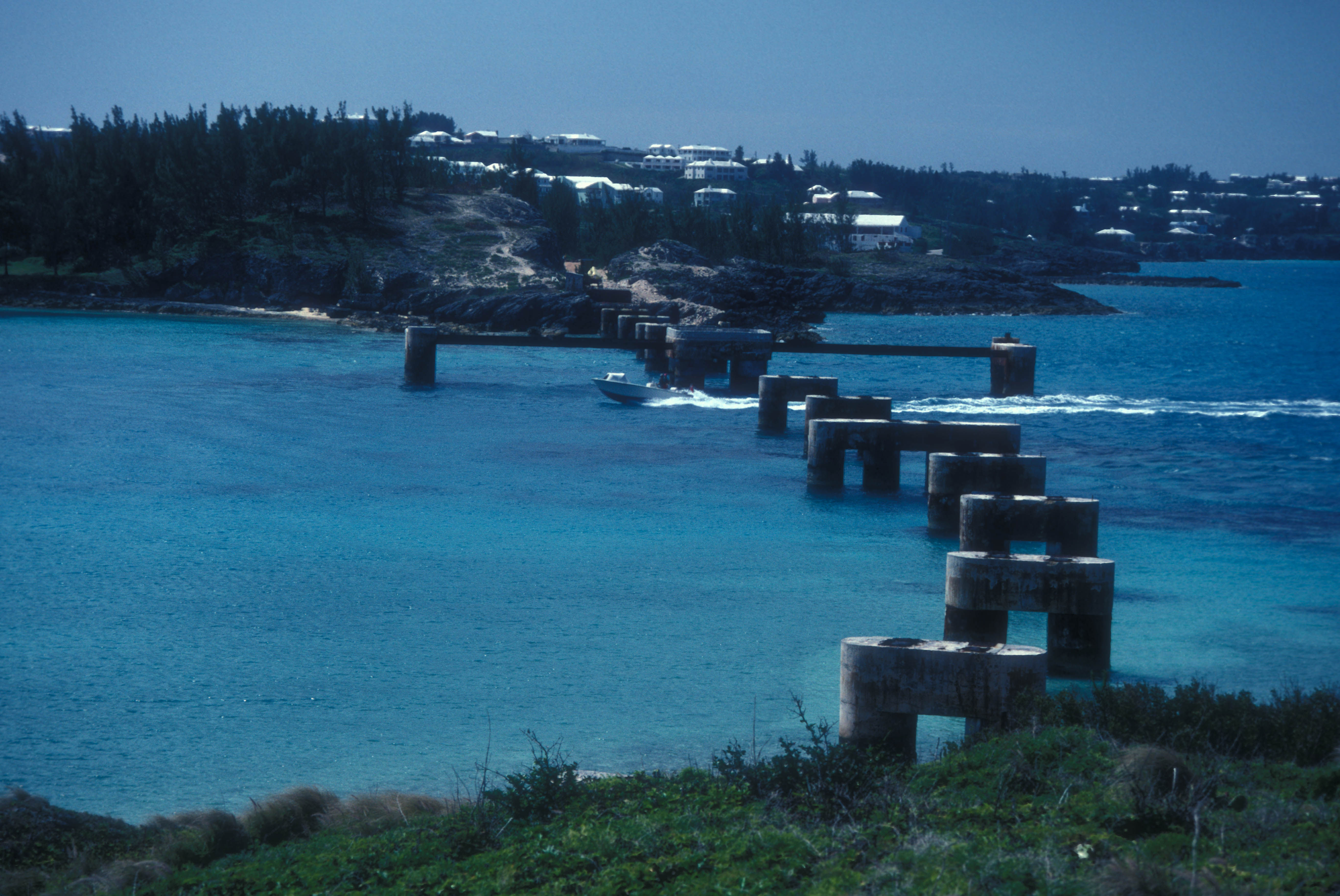 REMAINS OF ONE OF THE RAILROAD BRIDGES REMAIN; THIS RAILROAD RAN FROM 1931 TO 1948 AND RAN FROM THE EASTERN END TO THE WESTERN END OF THE ISLAND. MOST EXPENSIVE RAILROAD EVER BUILT ON A PER MILE BASIS COSTING THE INVESTORS 1 MILLION POUNDS; NOW A HIKING AND HORSEBACK TRAIL